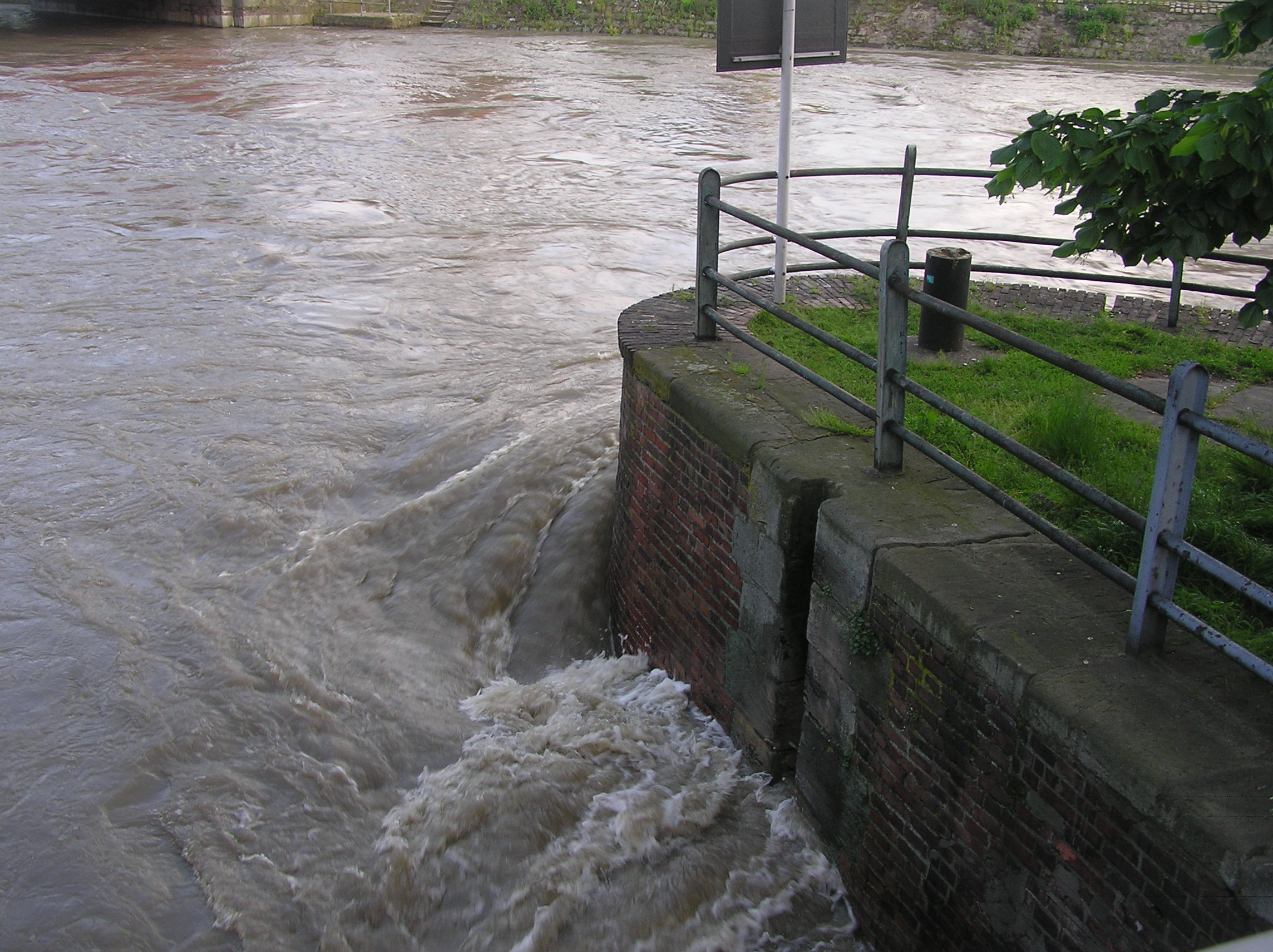 Wrocław, Piaskowa Lock